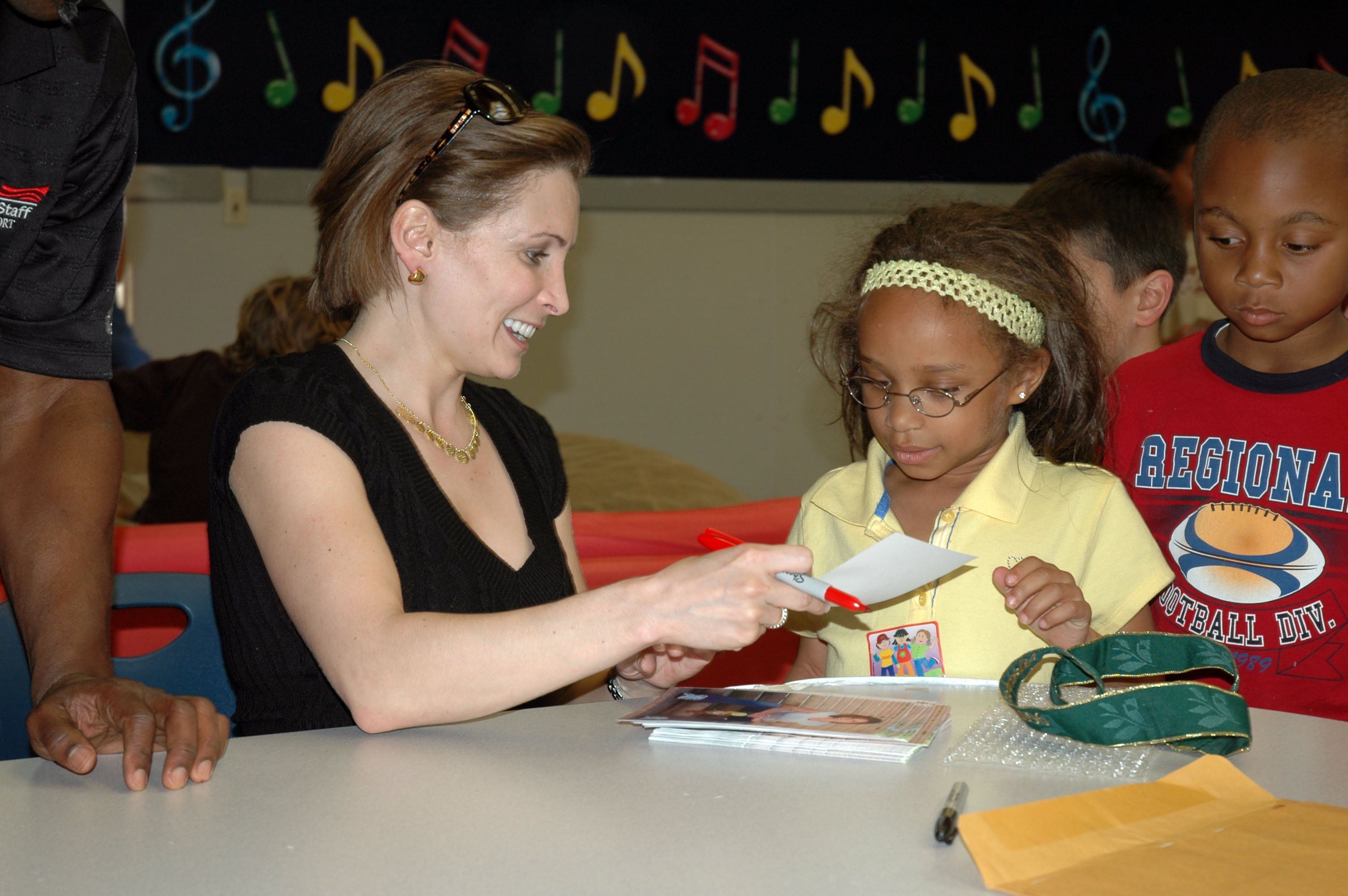 080319-N-8102J-084 MAYPORT, Fla. (March 19, 2008) Olympic gold medalist Shannon Miller autographs a picture for a child at the Youth Activities Center at Naval Station Mayport. Miller visited the Mayport to meet and greet servicemembers and their families as part of a morale, welfare, and recreation tour.